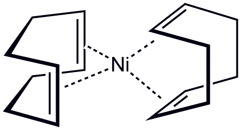 structure of "Ni(cod)2"